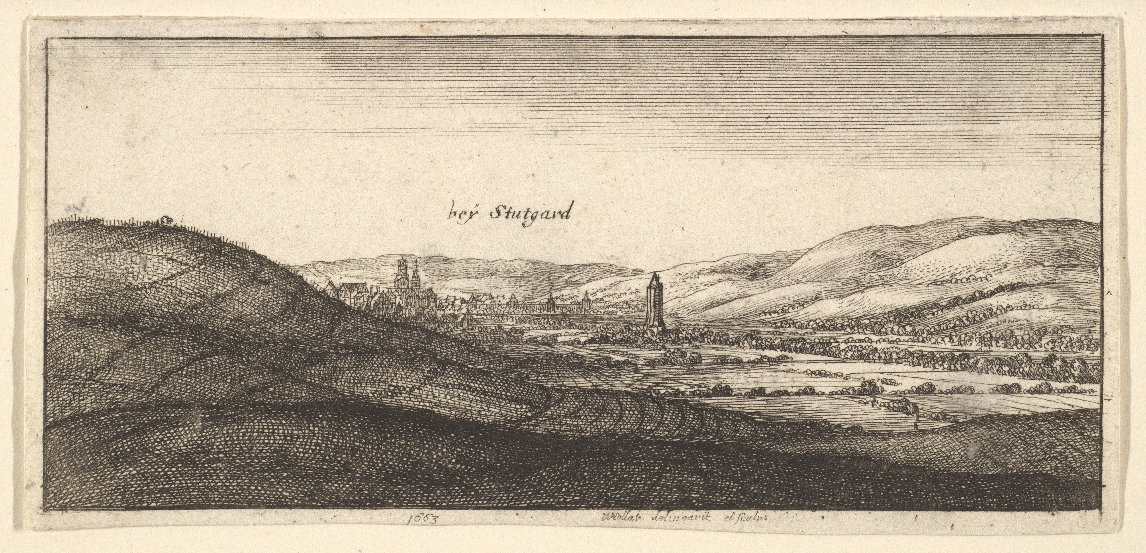 Print; Prints